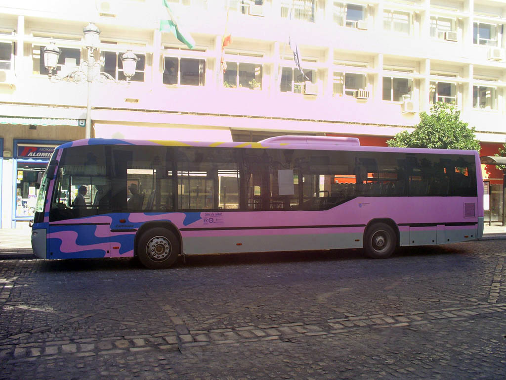 Jerez de la Frontera's tipic pink urban bus